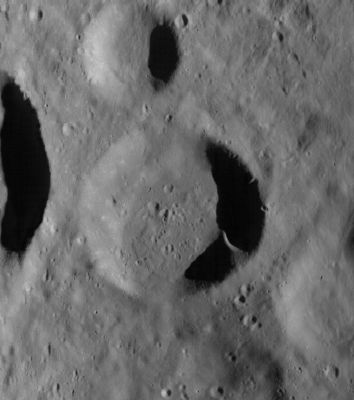 LROC image WAC No. M118552270ME. Processed by LROC_WAC_Previewer.